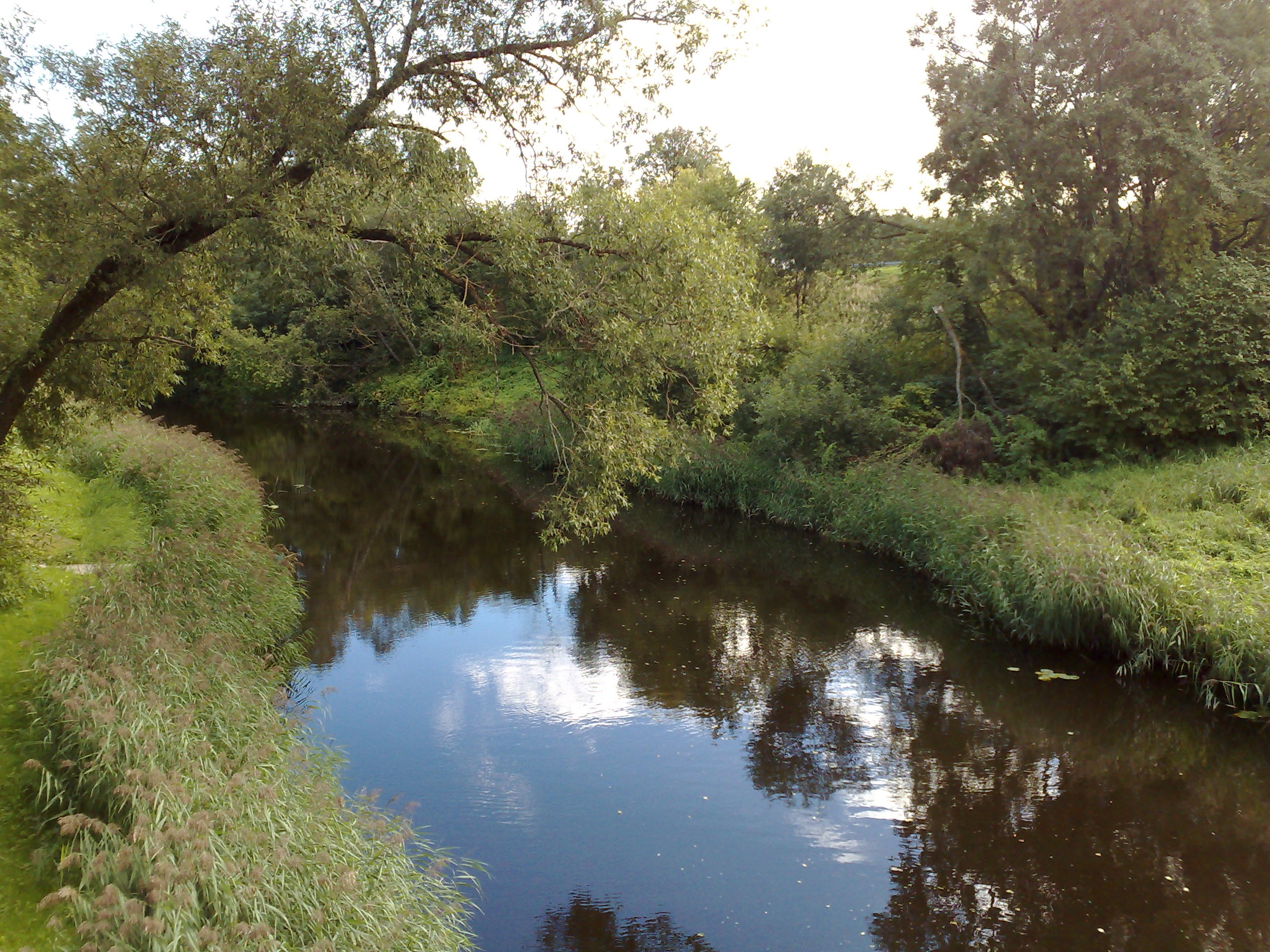 View of Sauga river in Pärnu county, Estonia